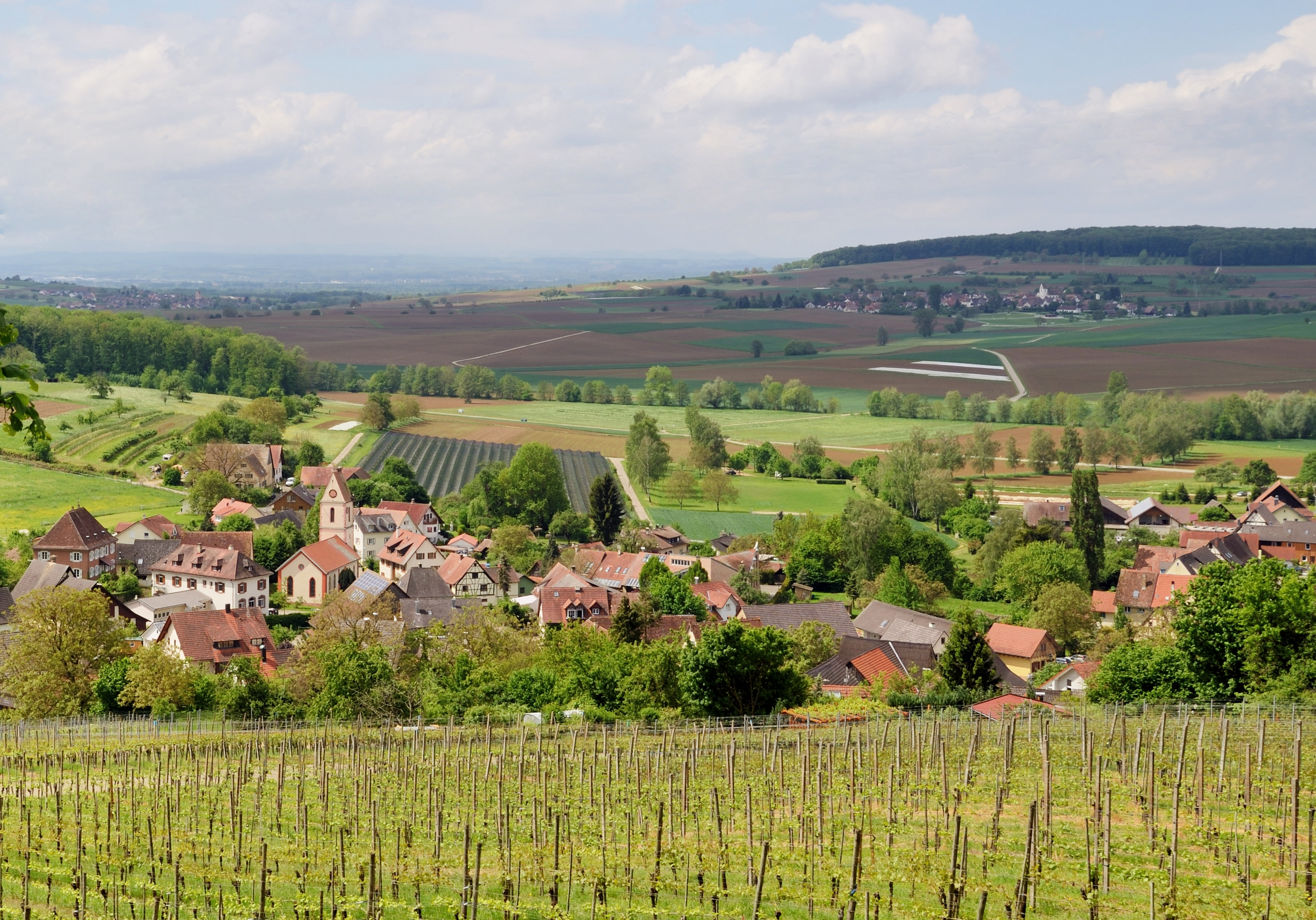 Holzen